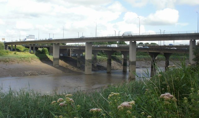 Four bridges across the Usk, Newport